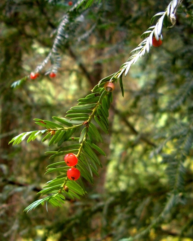 Pacific Yew Taxus brevifolia, 2005-09-08, Panjab Creek, Blue Mts, WA.